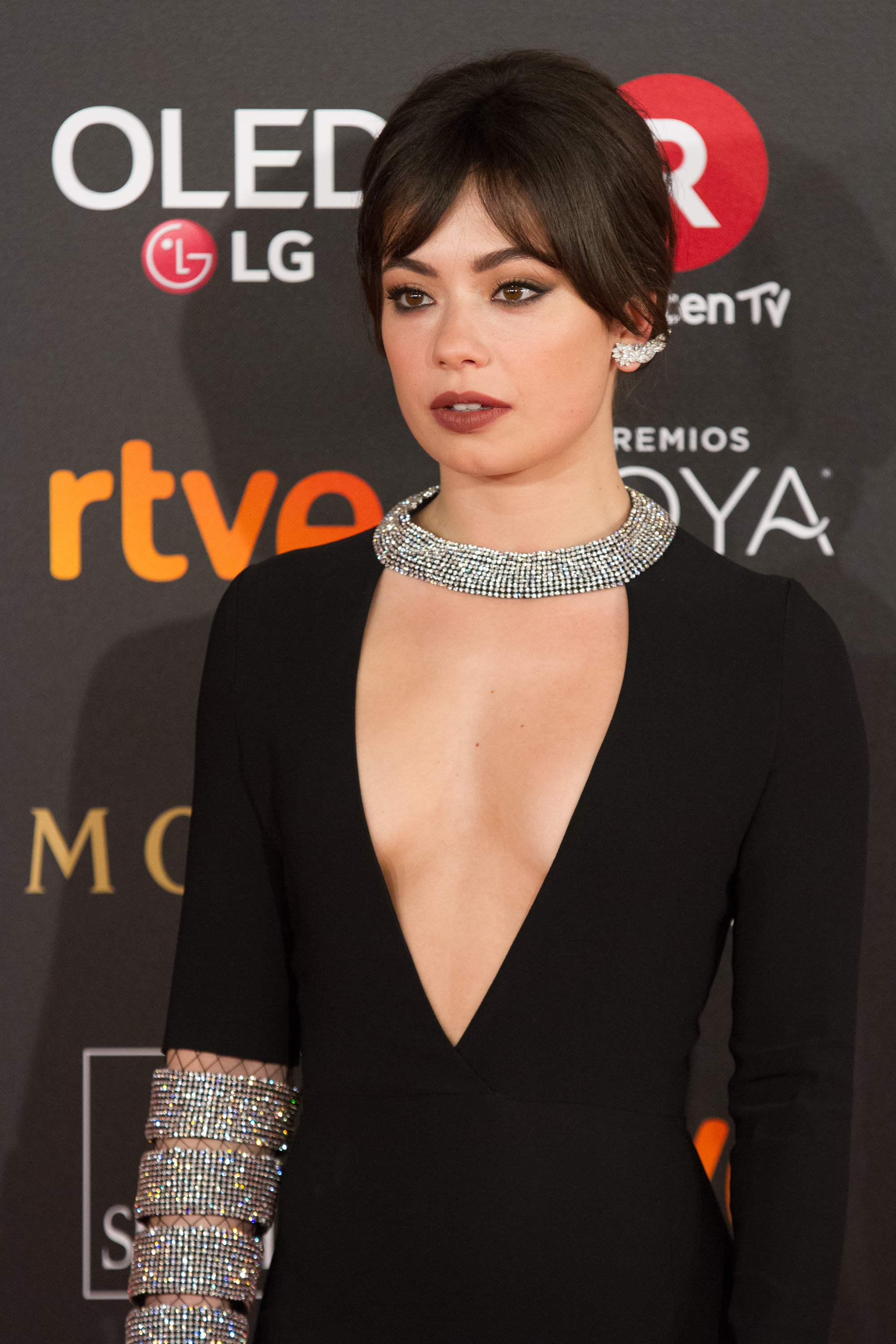 Anna Castillo at the 32nd Goya Awards, 2018.